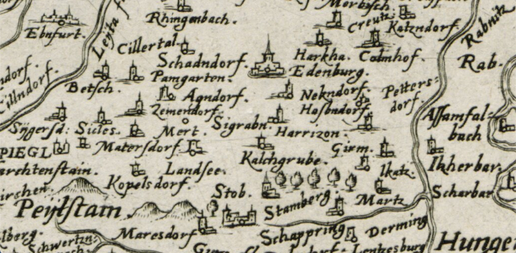 Wolfgang Lazius: "Austriae Ducatus Seu Pannoniae Superioris Chorographia Germana" (historische Landkarte, Ausschnitt), 1570